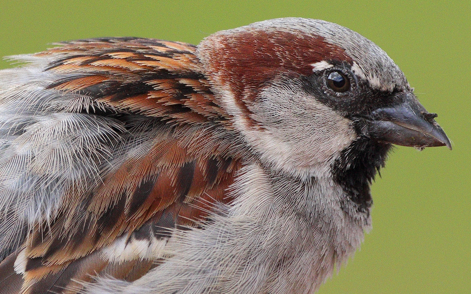 Sparrow (Passer domesticus) close-up